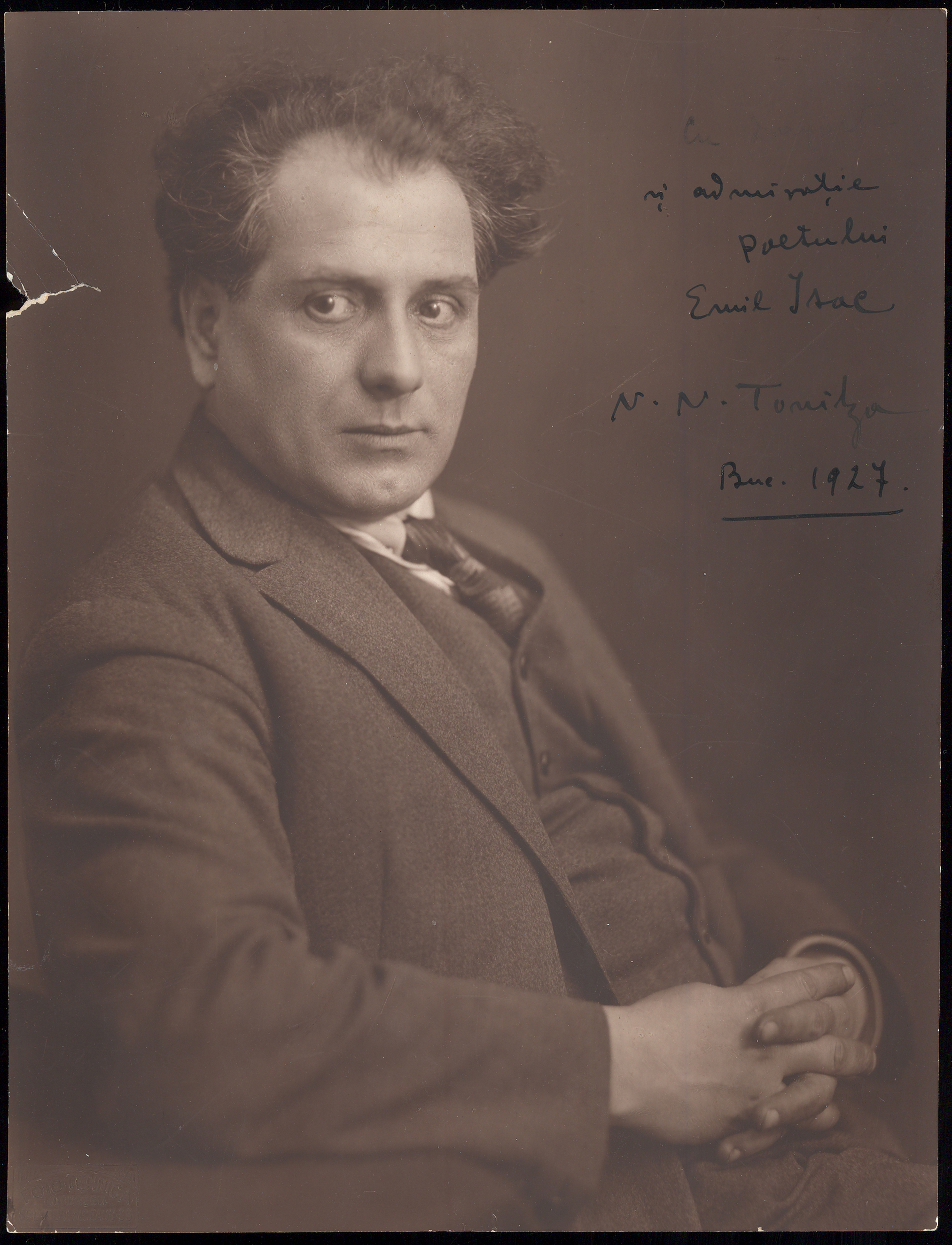 Romanian painter Nicolae Tonitza